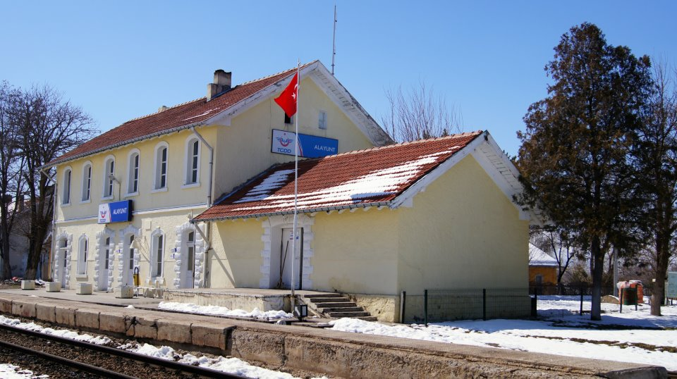 Alayunt station building.